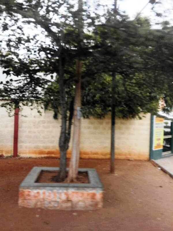 Mysore city, Mysore district, Karnataka province, India.